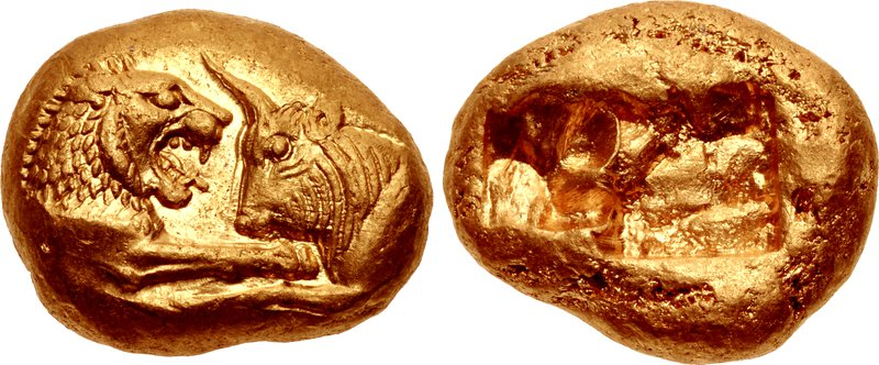 Kroisos. Circa 564-53-550-39 BC. AV Stater (16mm, 10.76 g). Heavy series. Sardes mint